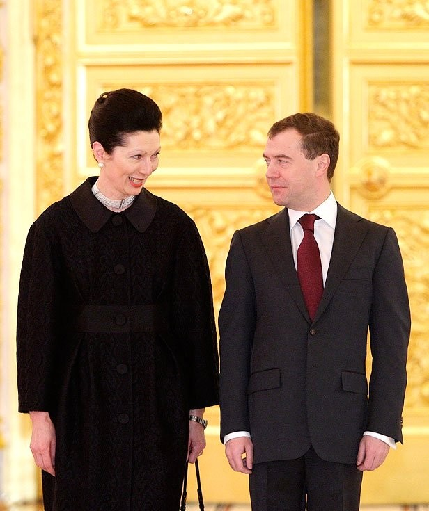 GRAND KREMLIN PALACE, MOSCOW. Presentation by foreign ambassadors of their letters of credence. With Ambassador of the Republic of Austria Margot Klestil-Loffler.